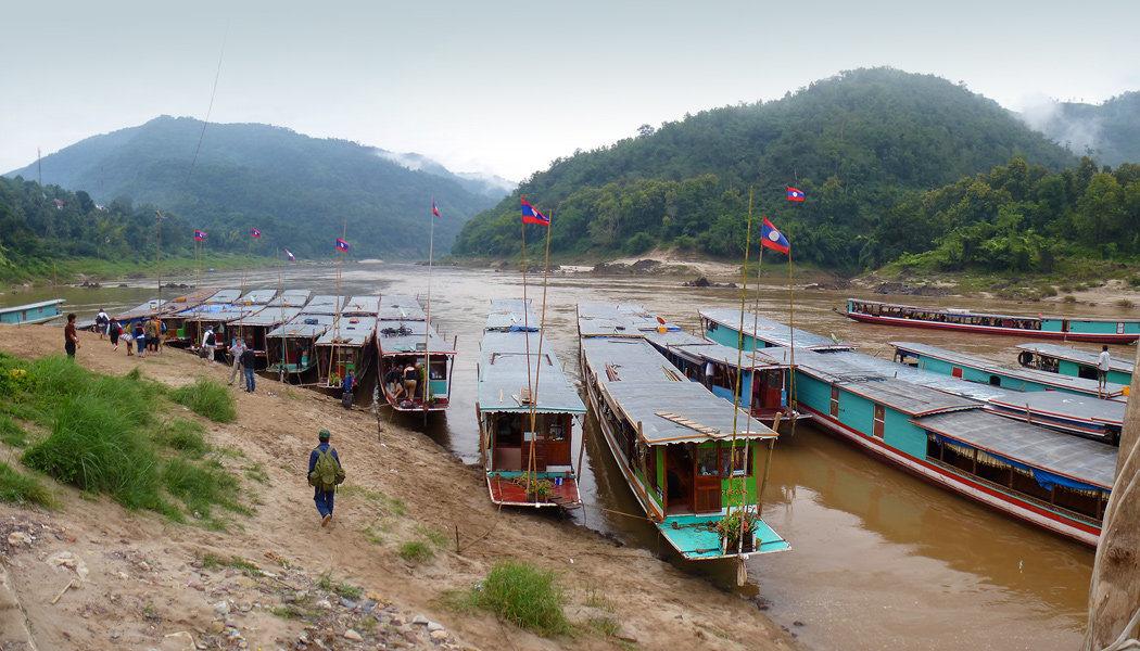 Pakbeng, Oudomxay Province, Laos.